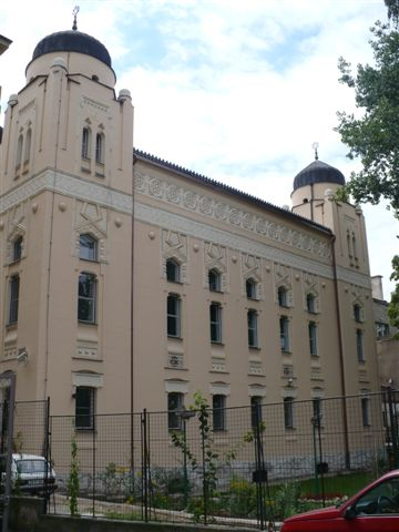 Synagogue in Sarajevo